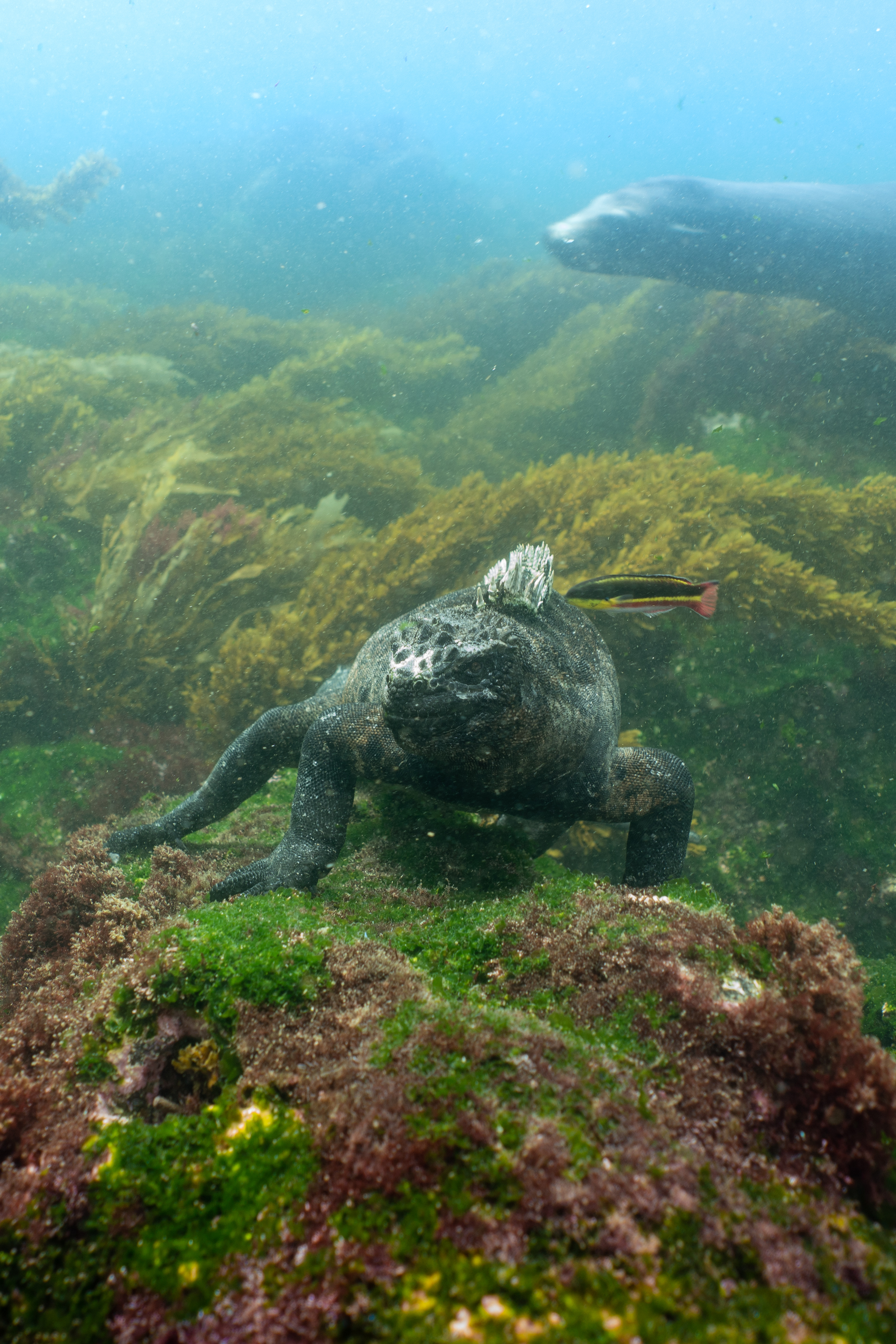 Marine iguana (Amblyrhynchus cristatus) feeding underwater off Fernandina Island, Galápagos Islands. Also a Cortez rainbow wrasse (Thalassoma lucasanum) and a Galápagos sea lion (Zalophus wollebaeki)